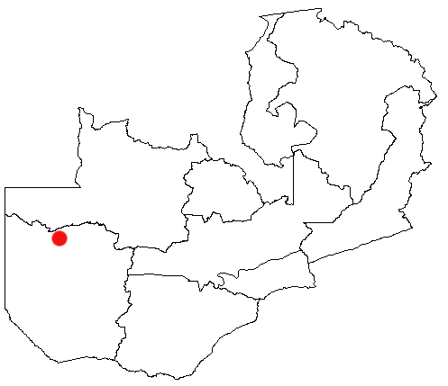 Lukulu, Zambia Location Map; created with the GIMP.